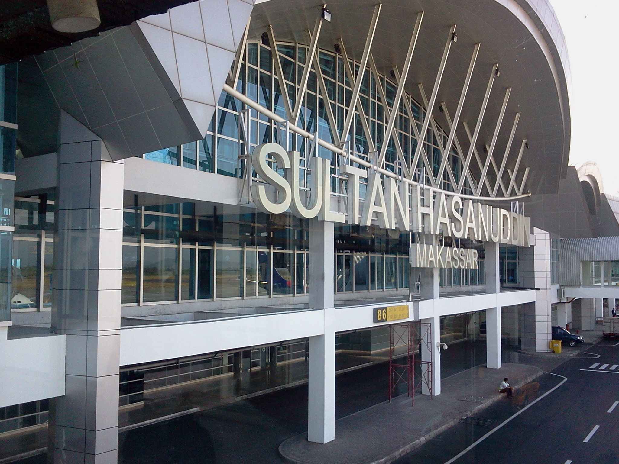 Sultan Hassanudin international airport Makassar